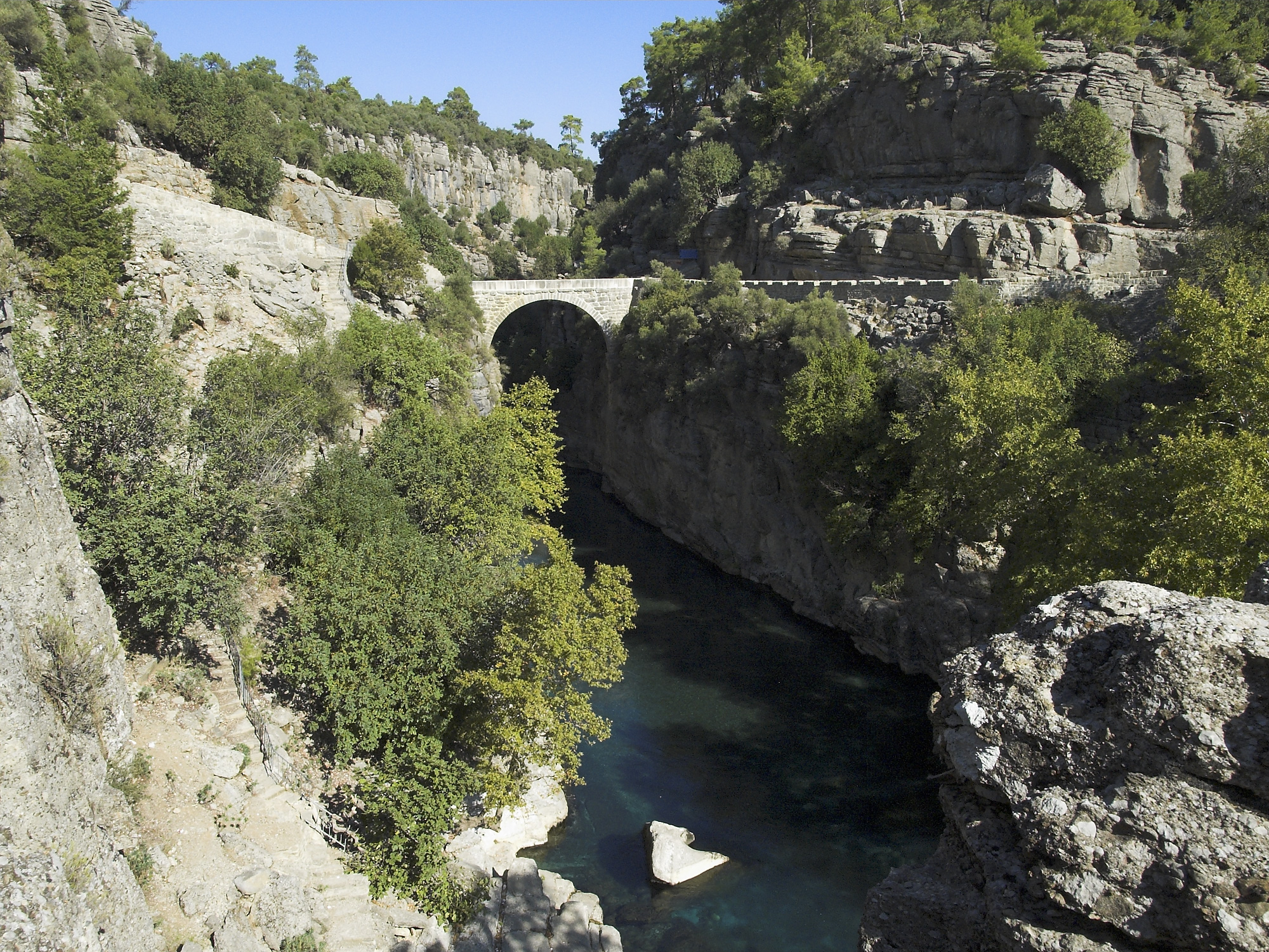 The Eurymedon Bridge (Oluk Köprü) near Selge, Pisidia, Turkey